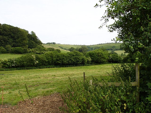 Downland near South Cadbury. View from the car park looking away from the hill fort.